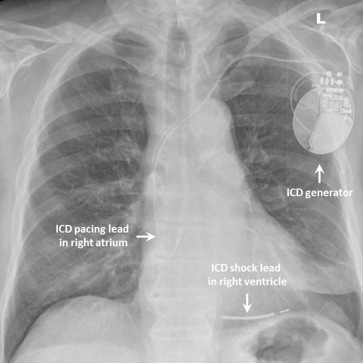 Labelled chest X-ray showing an implantable cardioverter defibrillator (ICD) with atrial and ventricular leads